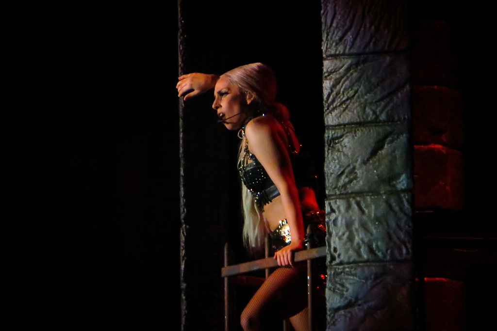 Lady Gaga in Hong Kong performing at the Born This way ball.